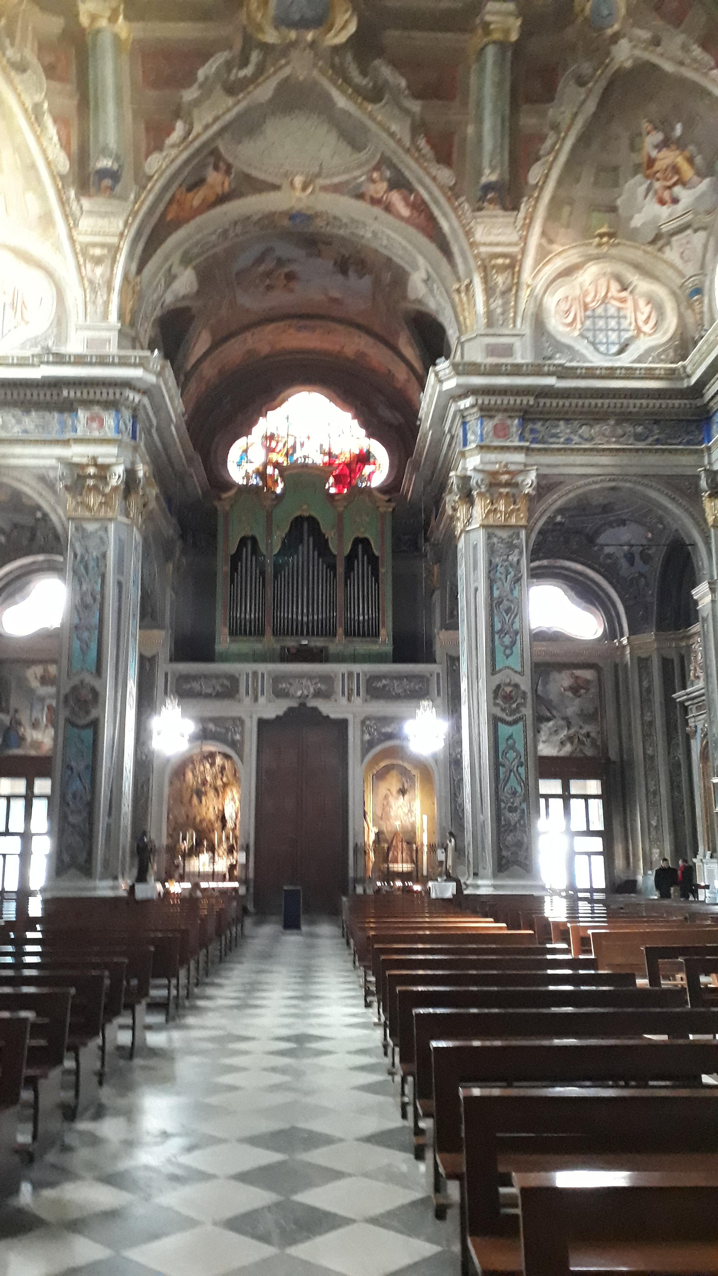 Inner side of the façade